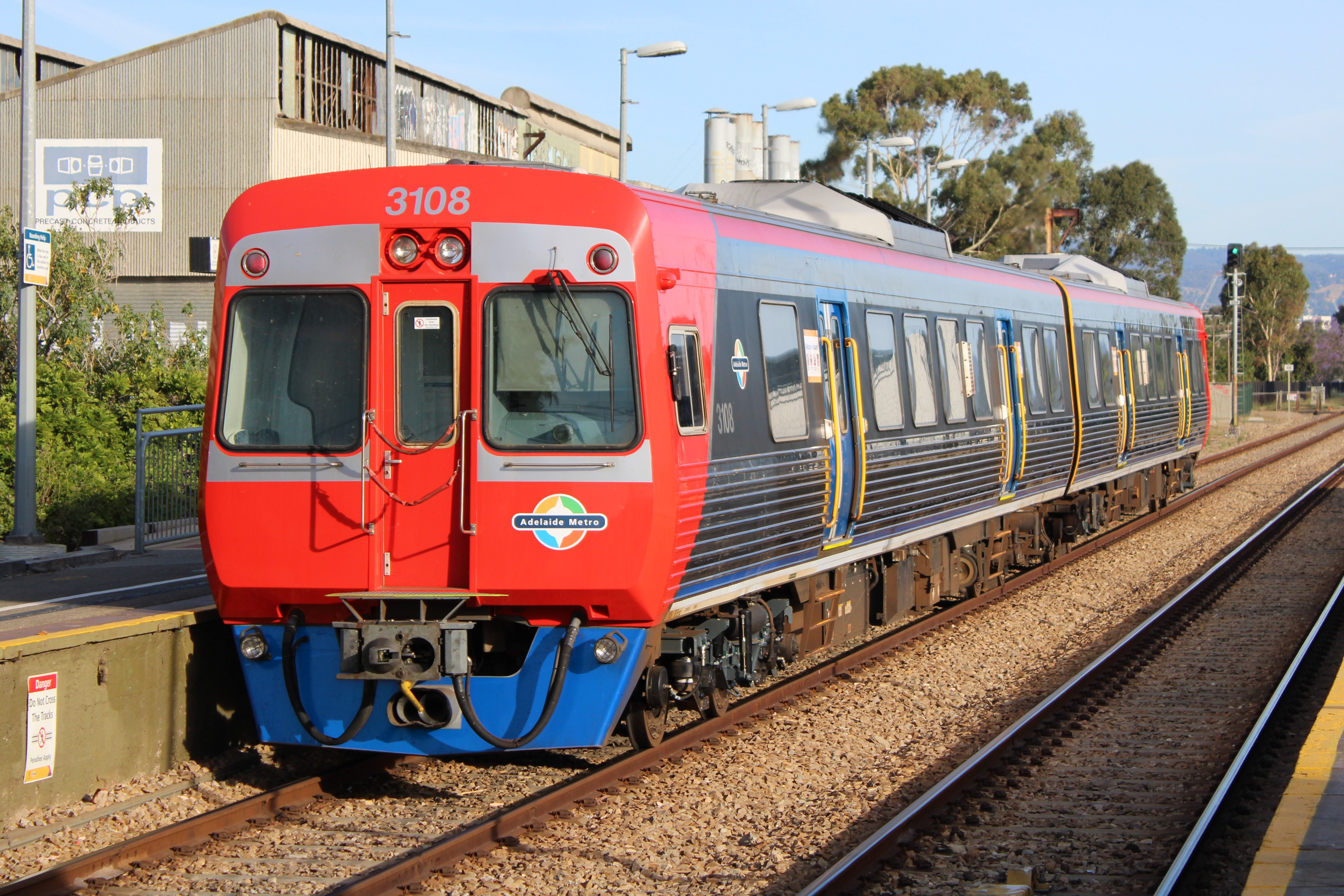 3108-3109 at Kilkenny in late November 2019